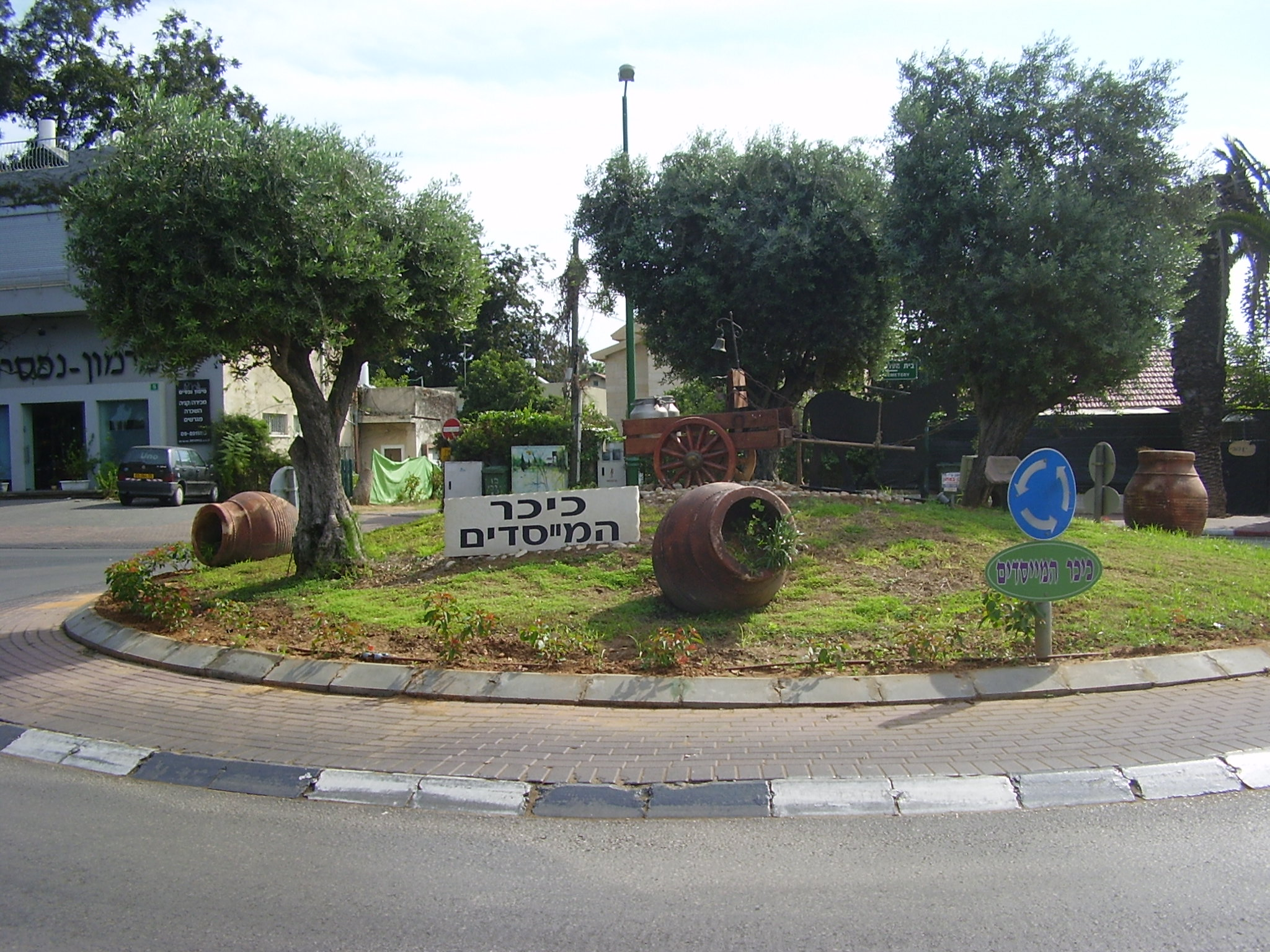 founders square in kadima